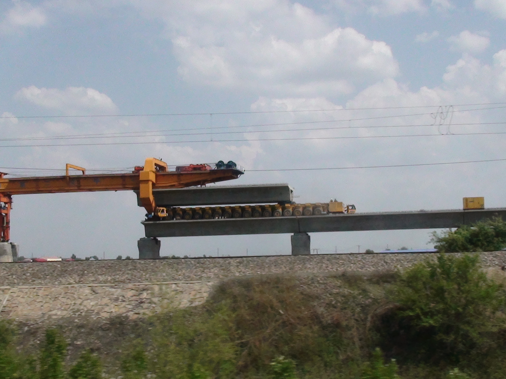 Harbin-Dalian high-speed railway under construction.